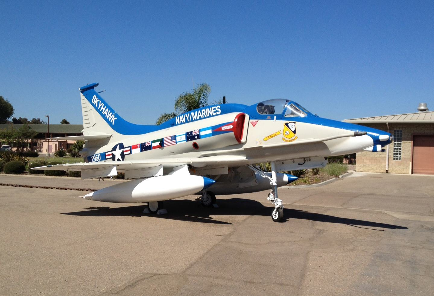 The last production A-4 Skyhawk (BuNo 160264) on display at the Flying Leatherneck Aviation Museum at Miramar, California (USA).